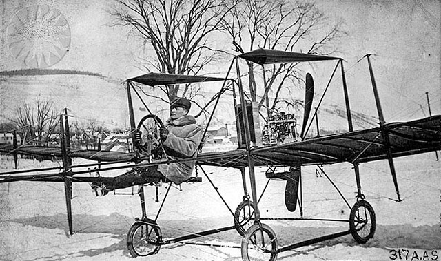 The Pfitzner Flyer, the first American monoplane; it was designed to avoid infringement of the Wright Brothers' patents